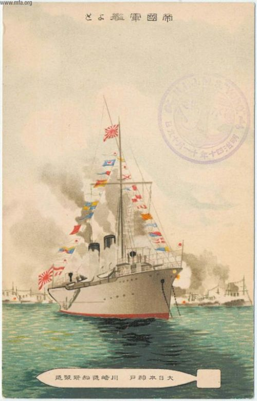 Postcard of Japanese cruiser Yodo in early 1900s